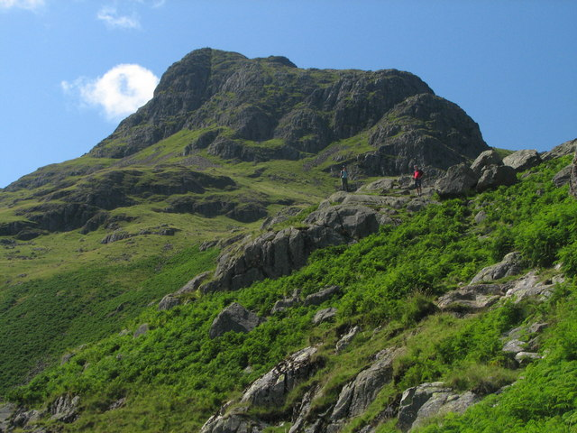 Harrison Stickle The eastern side of Harrison Stickle is, I think, the most impressive. It is seen here from the path alongside Mill Gill just below Stickle Tarn